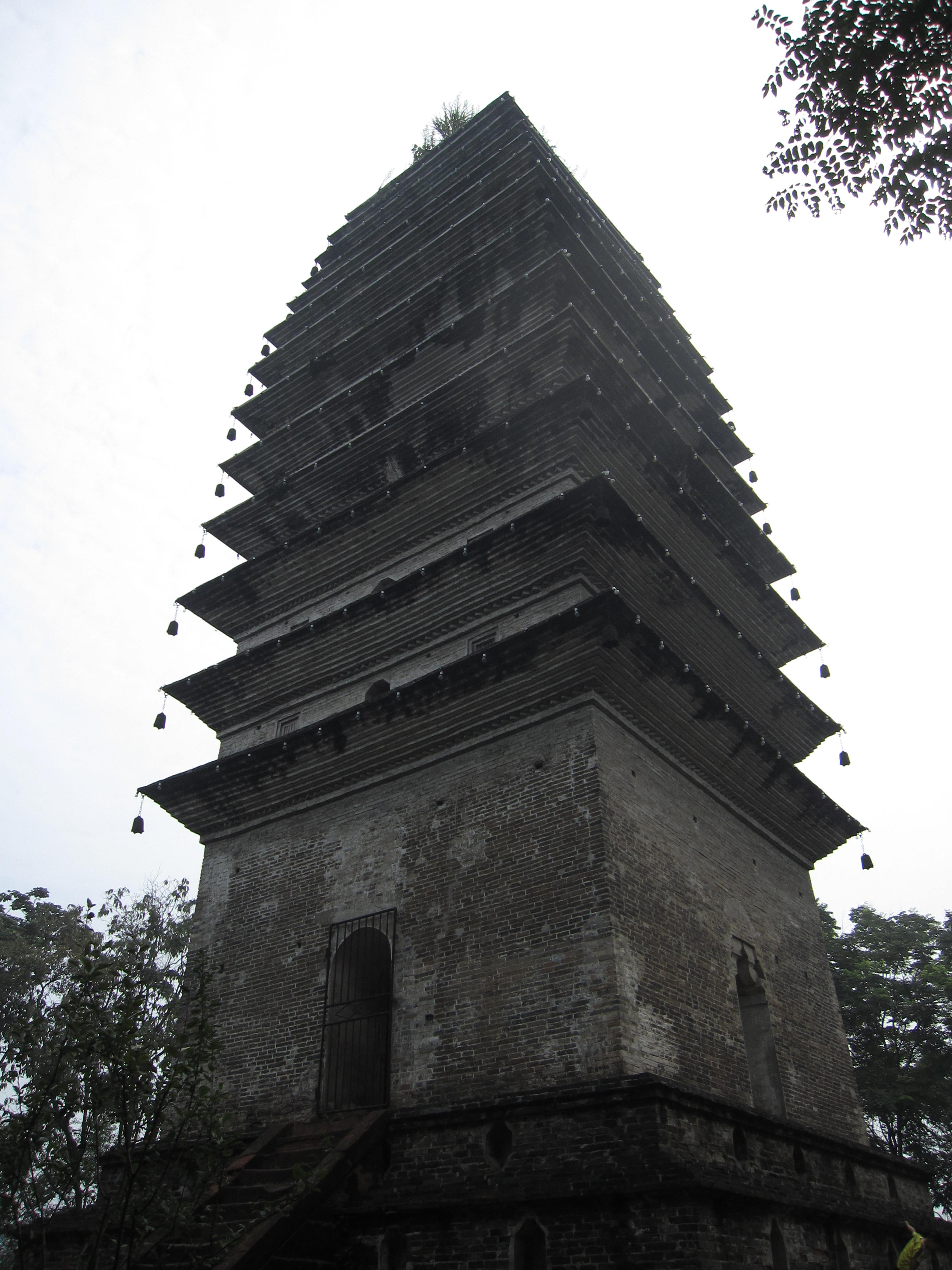 The Lingbao Pagoda in Leshan, Sichuan, China